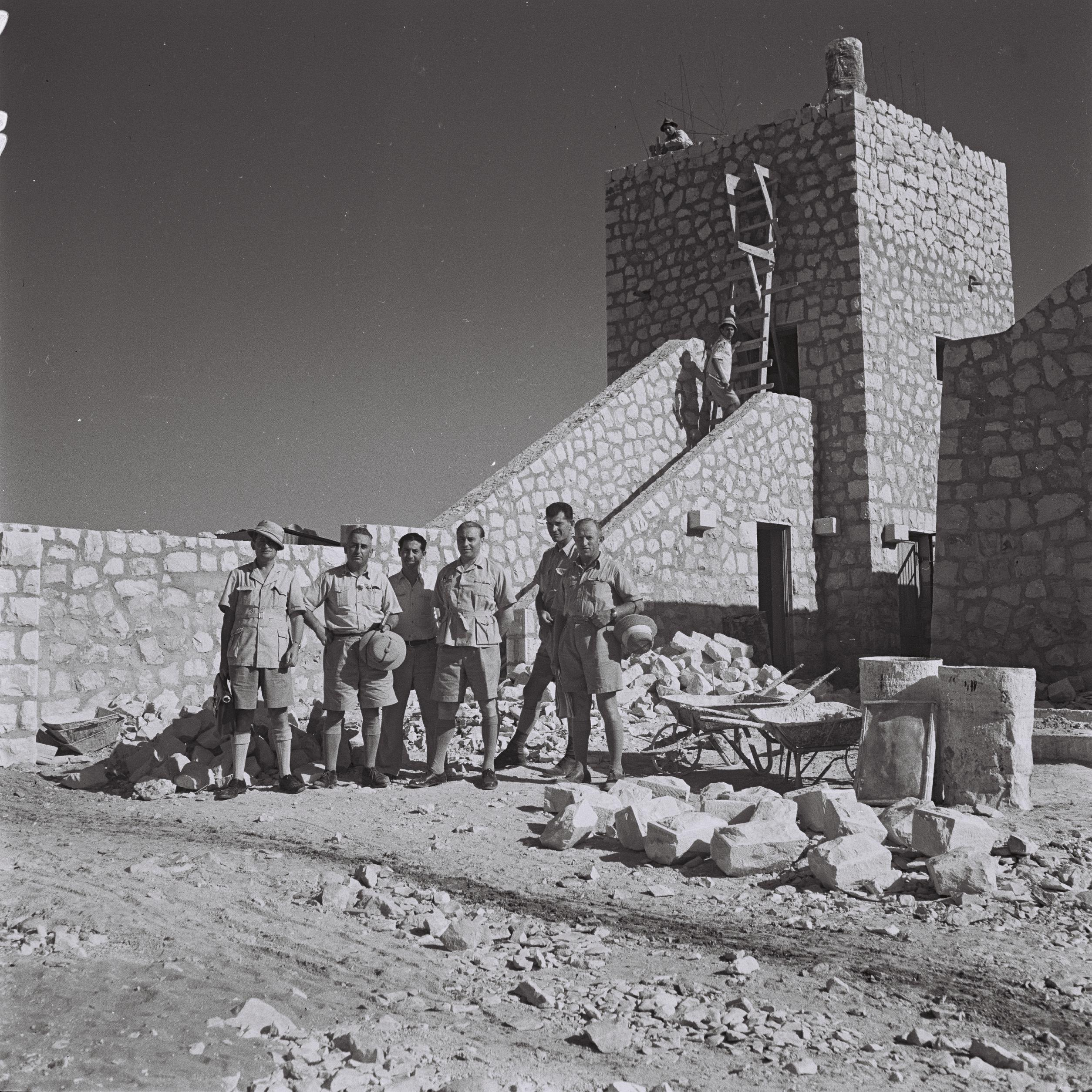 MEMBERS OF KIBBUTZ BIRIA IN THE YARD OF THE FORTIFIED SETTLEMENT. חלוצים, חברי קיבוץ ביריה, בחצר המבוצרת של הקיבוץ.